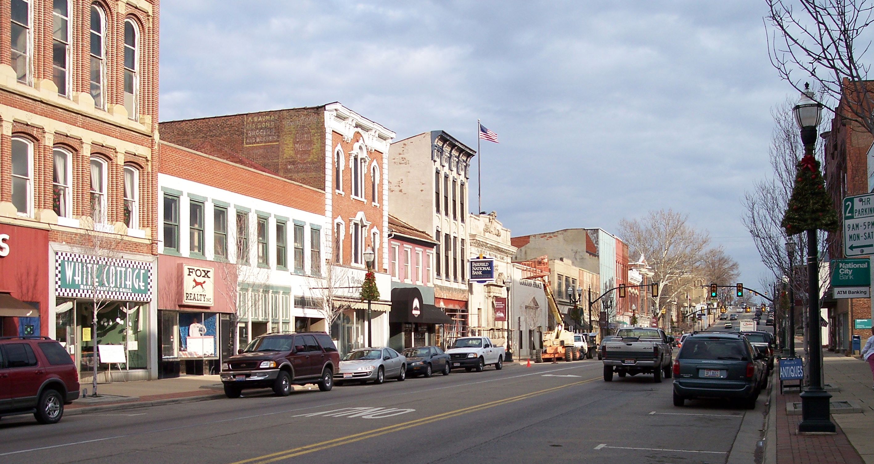 East Main Street (U.S. Route 22) in Lancaster, Ohio